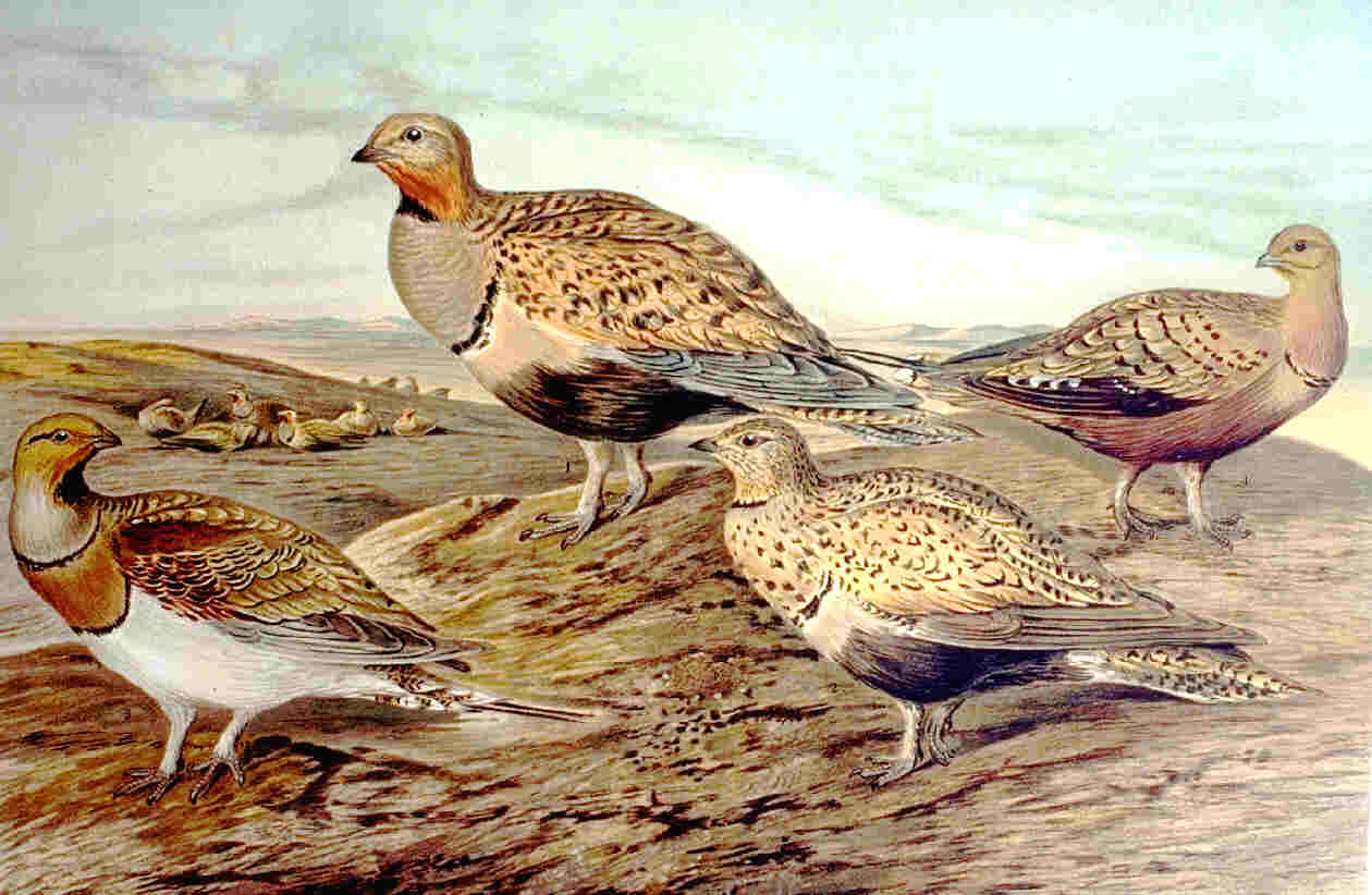 Pterocles exustus - Ganga à ventre brun - Chestnut-bellied - SandgrouseWüstenflughuhn female Pterocles orientalis - Ganga unibande - Black-bellied Sandgrouse - Sandflughuhn male Pterocles orientalis - Ganga unibande - Black-bellied Sandgrouse - Sandflughuhn Pterocles alchata - Ganga cata - Pin-tailed Sandgrouse - Spießflughuhn